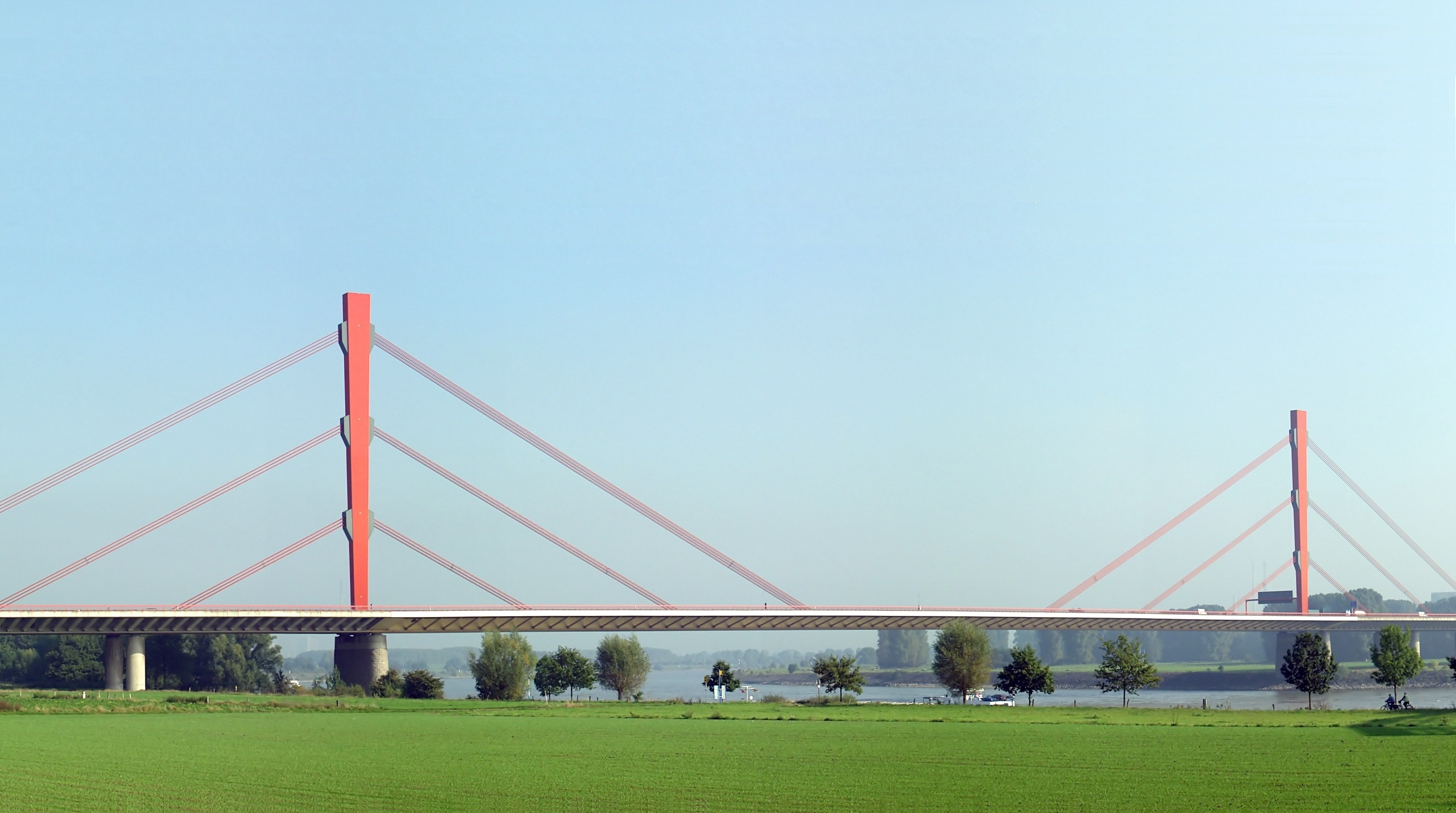 Motorway bridge (A 42) over the river Rhine in Duisburg, Germany